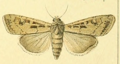 Image from Plate 6 of Die Gross-Schmetterlinge der Erde (The Macrolepidoptera of the World) Vol. 3